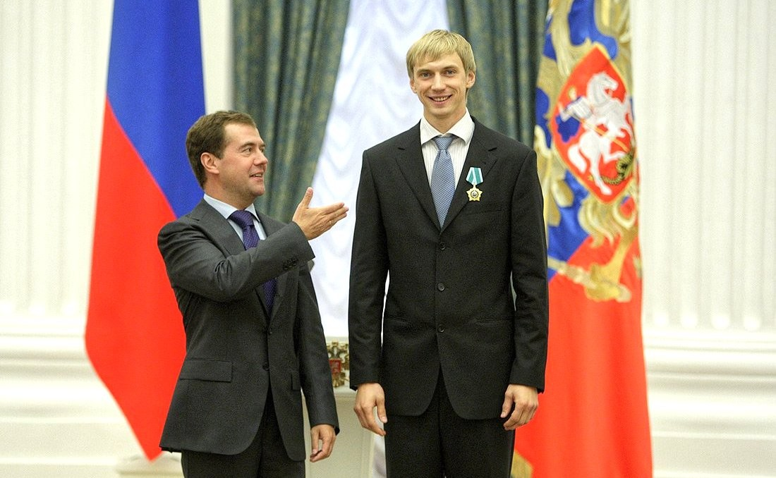 Andrey Silnov in Kremlin